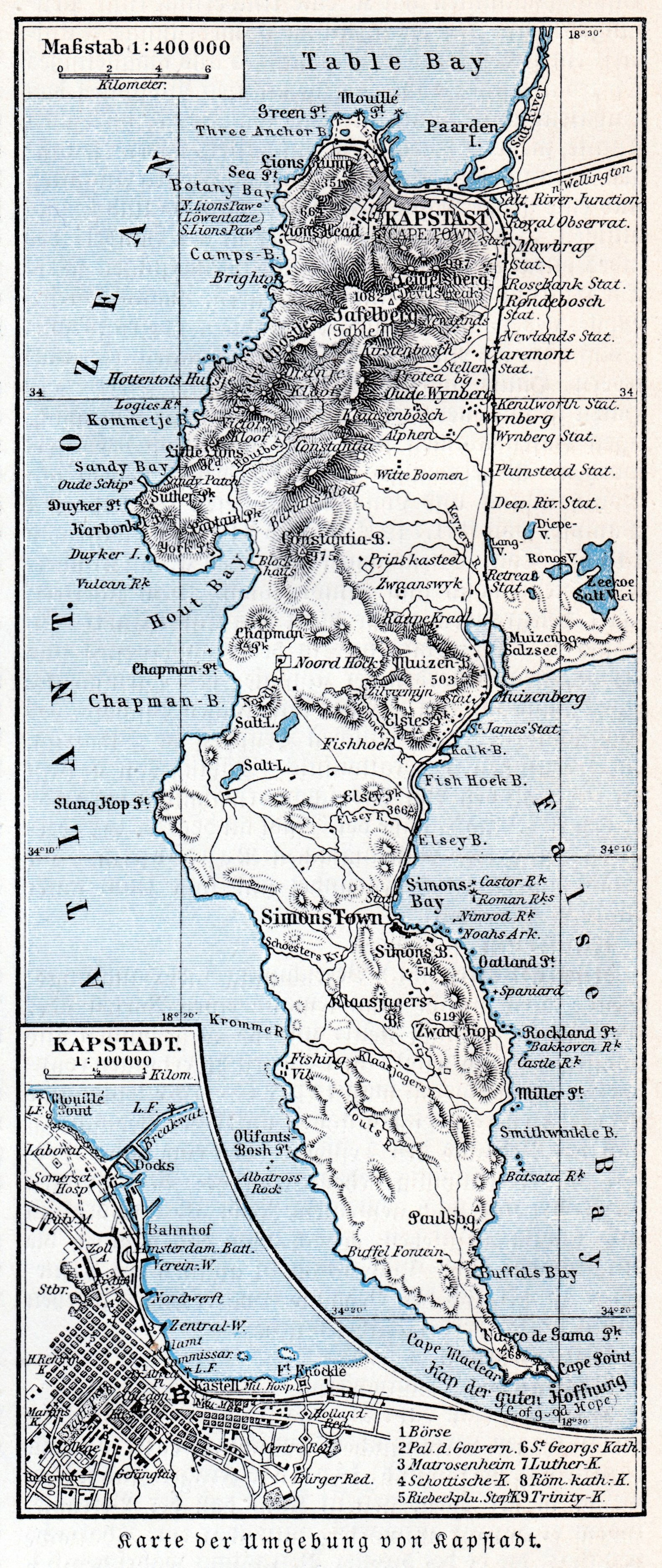 Map of the Cape Pensinula (South Africa)